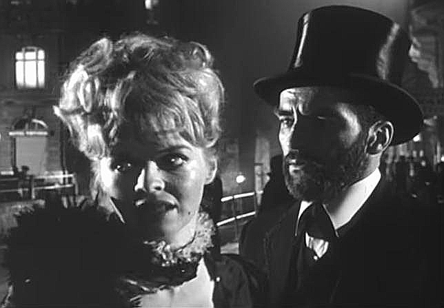 Susannah York & Montgomery Clift in Freud: The Secret Passion aka Freud - trailer (cropped screenshot)